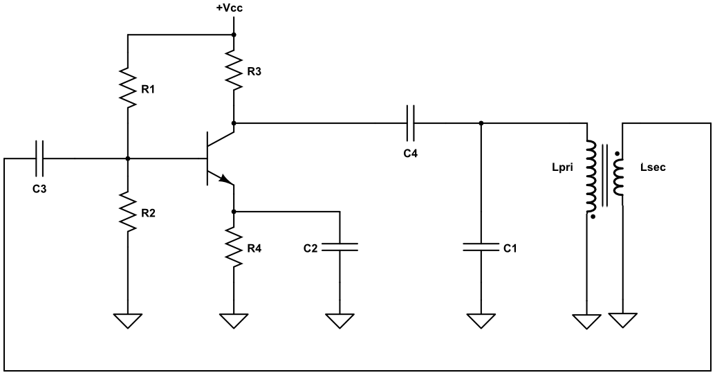 An example of an Armstrong electronic oscillator circuit